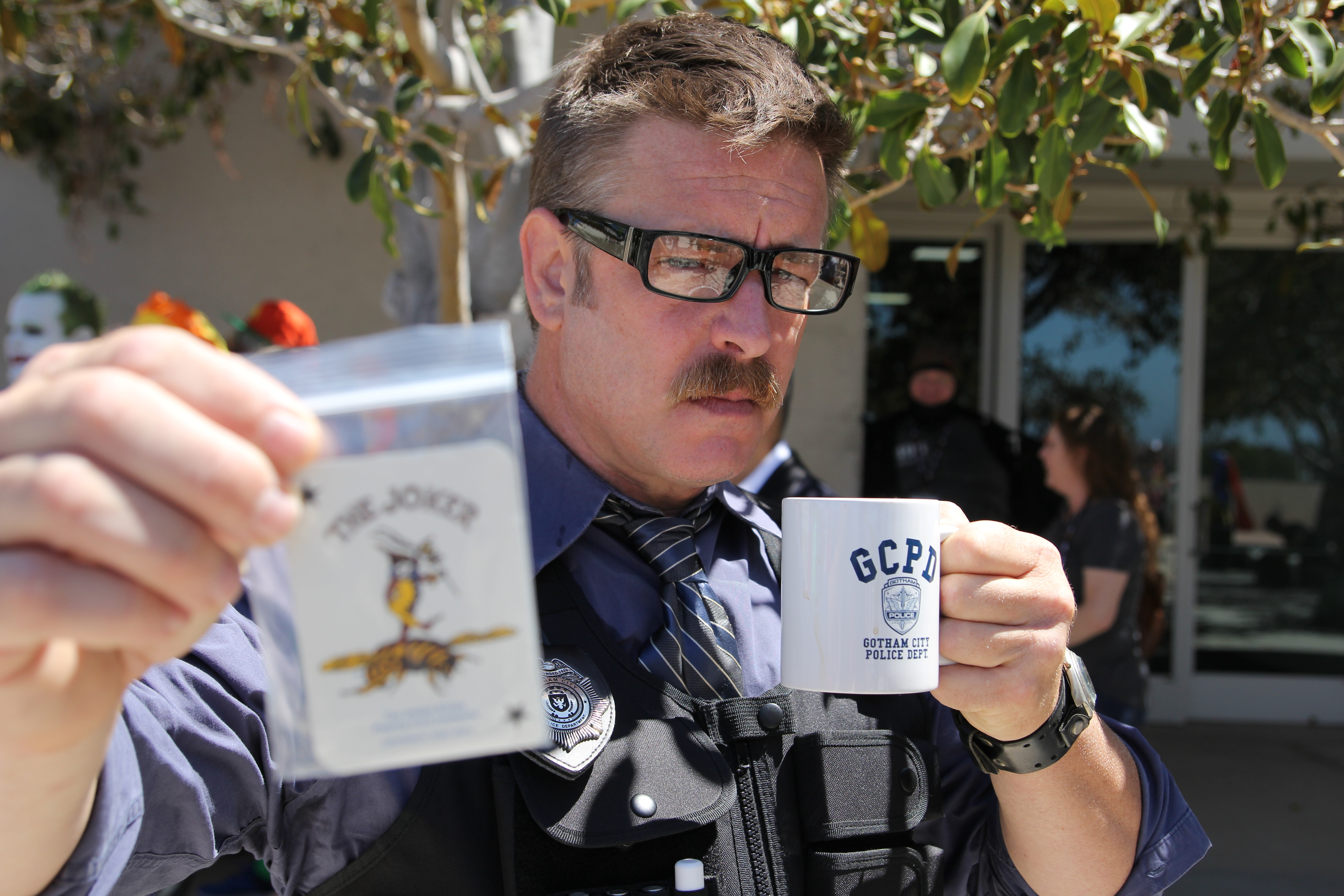 Cosplay of James Gordon, San Diego Comic-Con 2019.